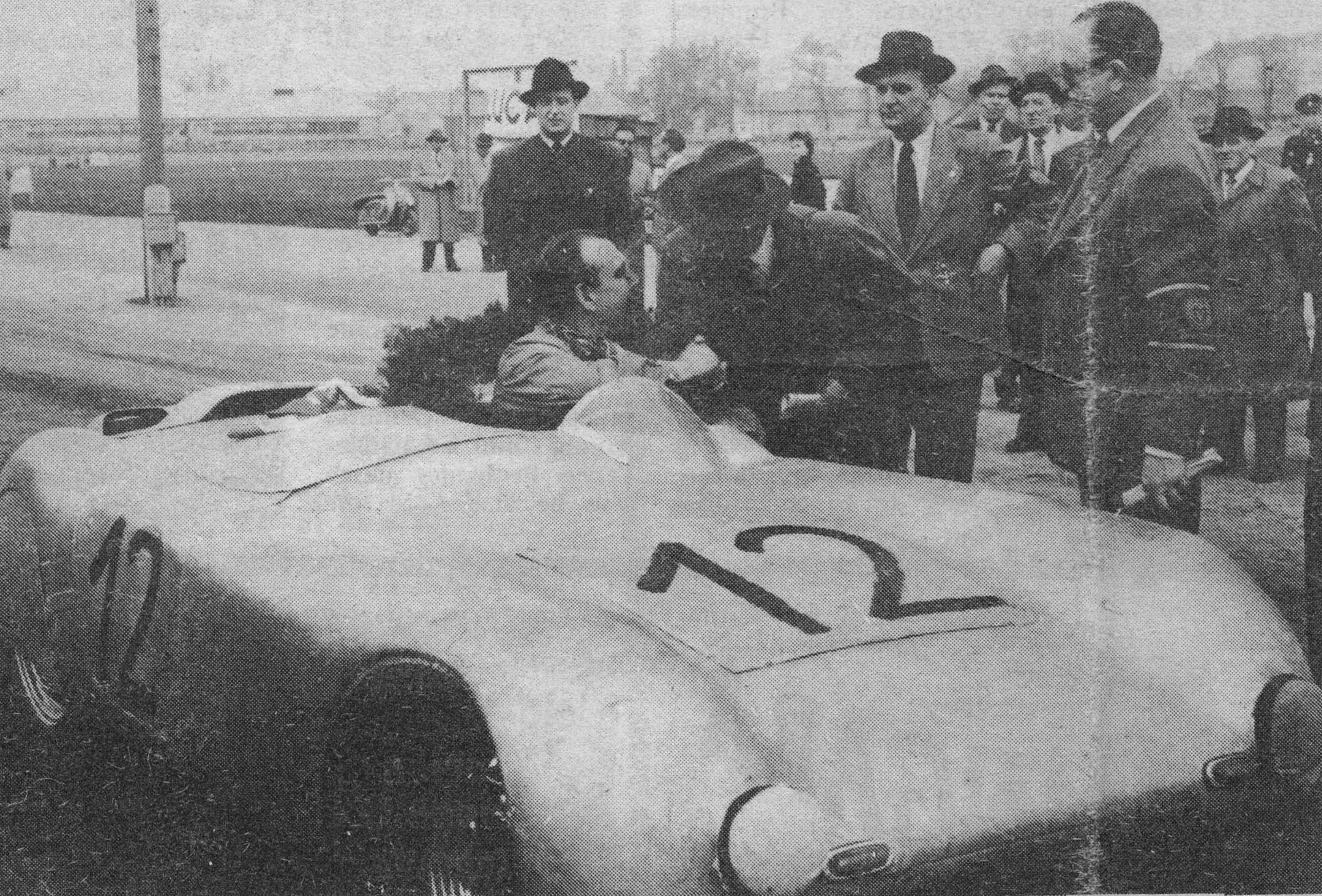 Harry Merkel - winner- Austrian Speedway Grand Prix